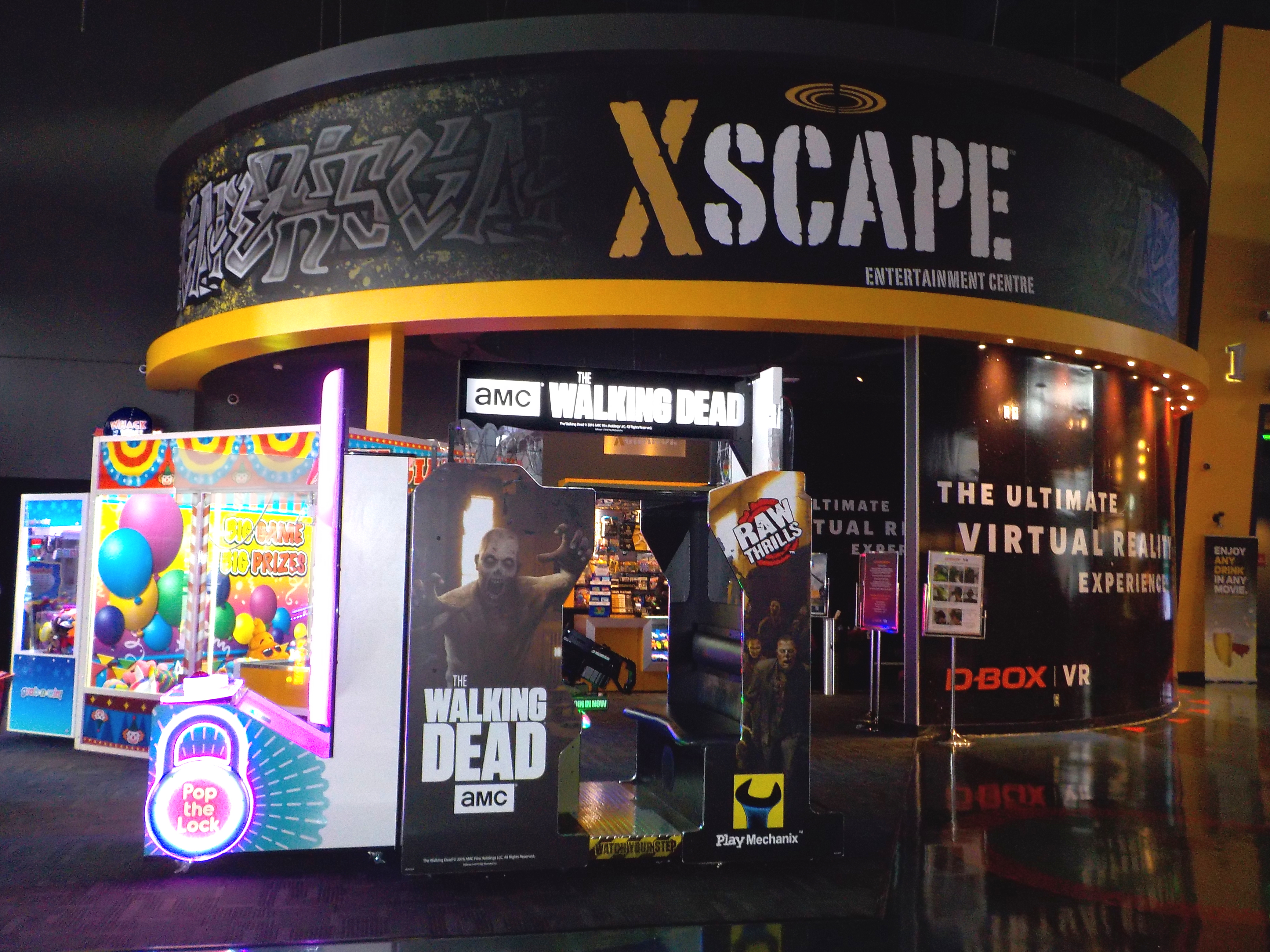 The Xscape arcade and D-Box VR cinema at Scotiabank Theatre Ottawa